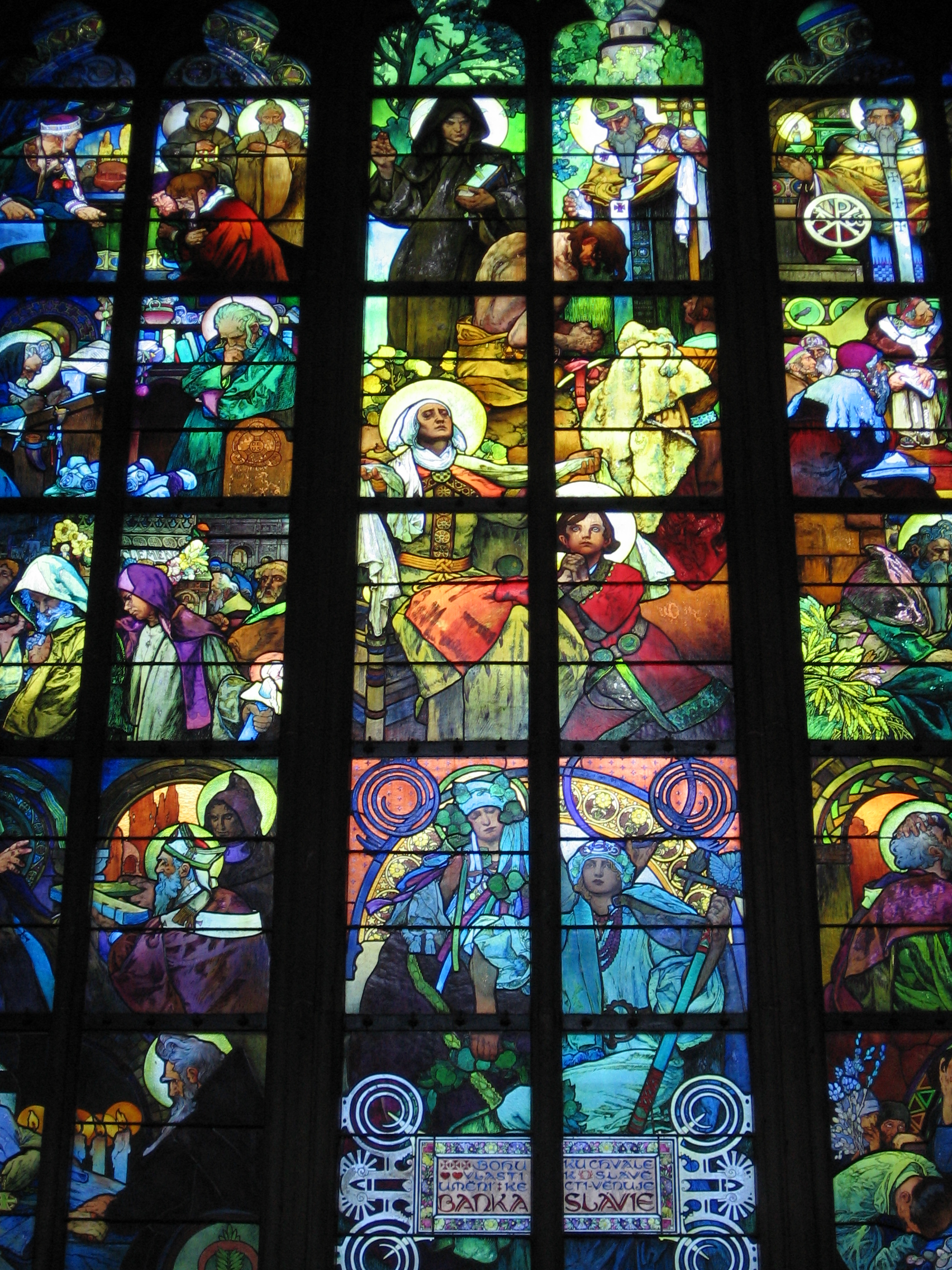 The Alfons Mucha's stained glass window in St. Vitus Cathedral in Prague.